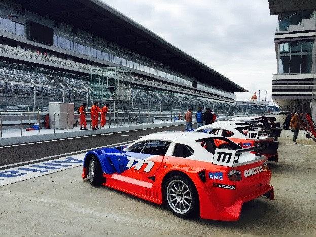 Mitjet Russie